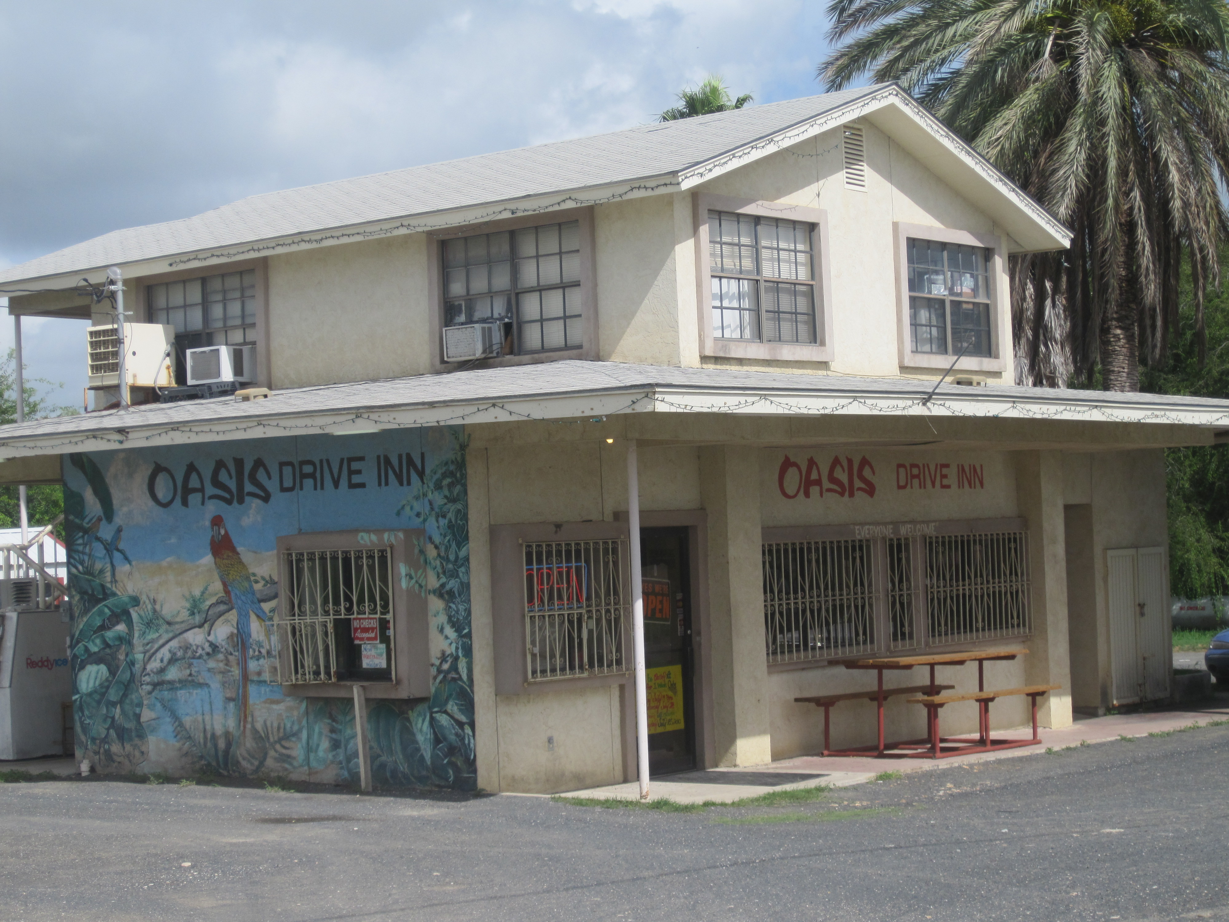 I took photo in Crystal City, TX, with Canon camera.